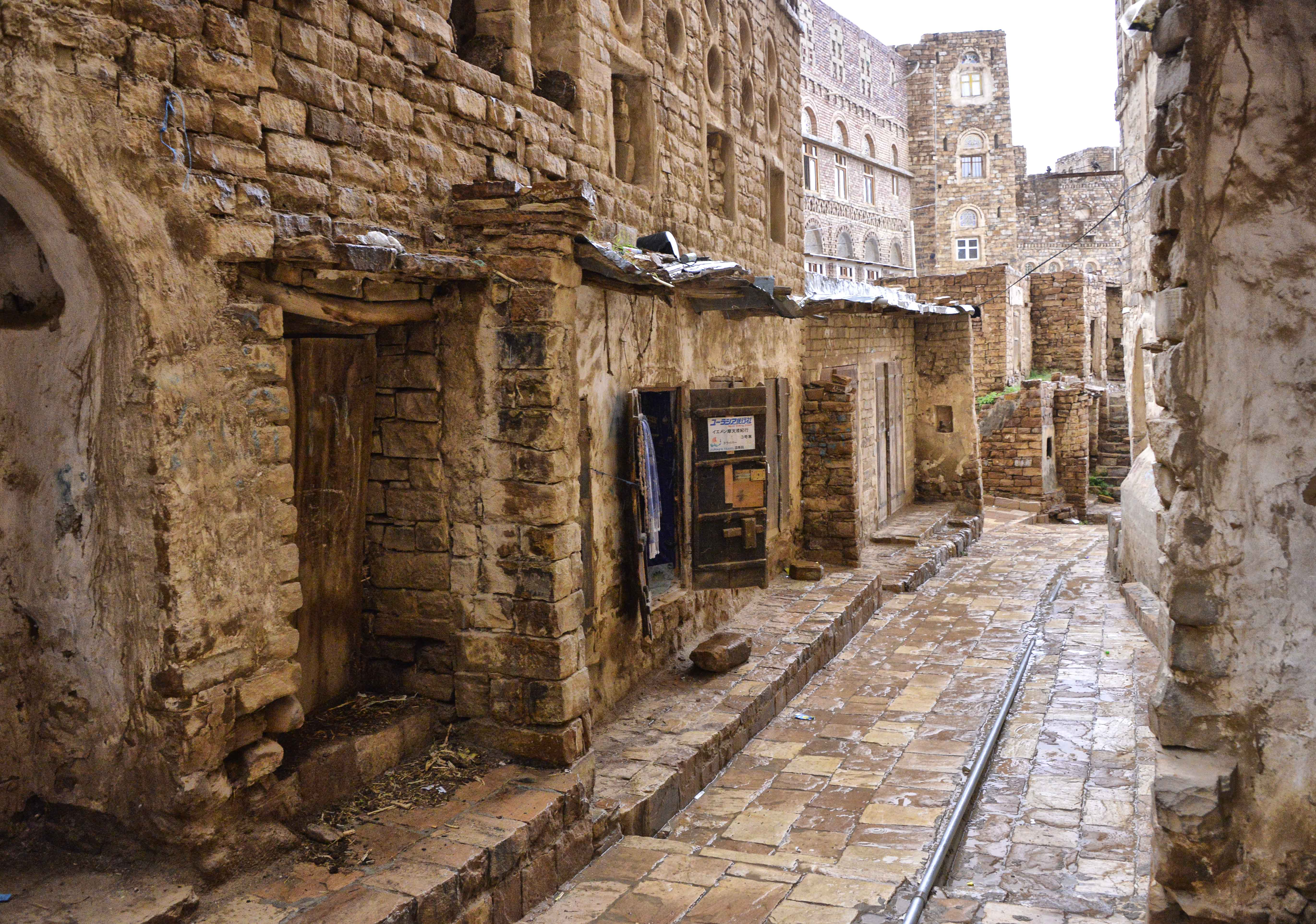 Thula Street, Yemen